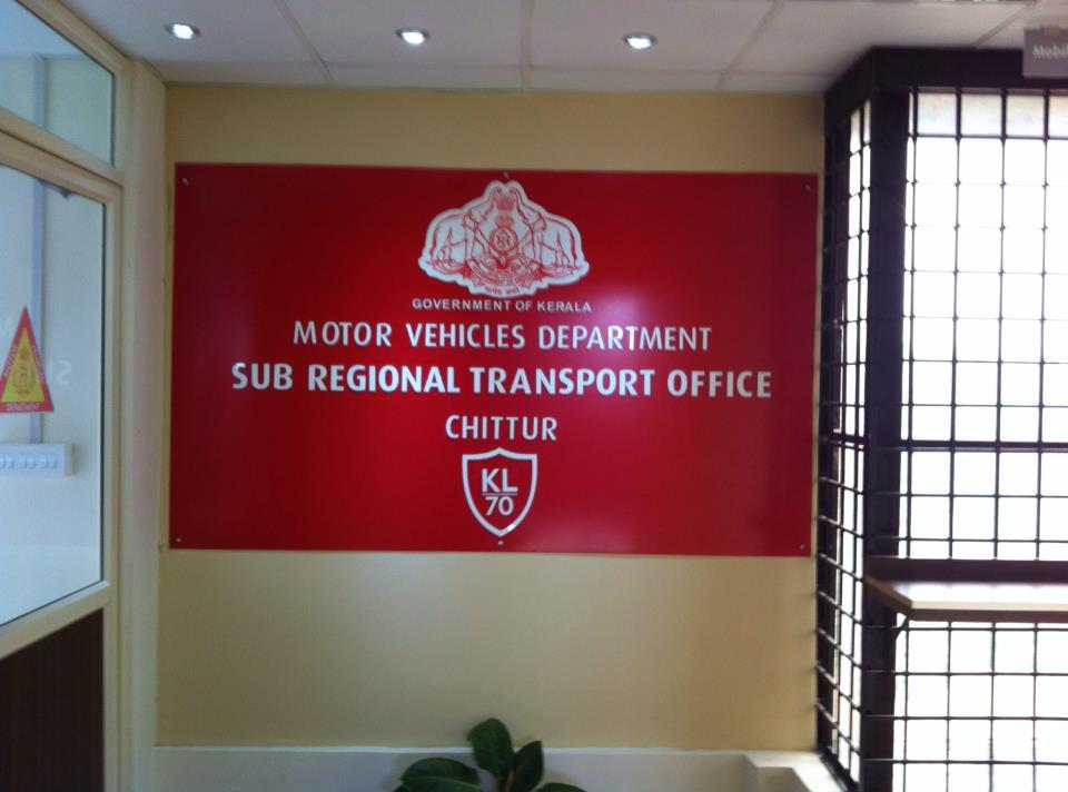 Chittur Sub Regional Transport Office ( RTO) at Tattamangalam